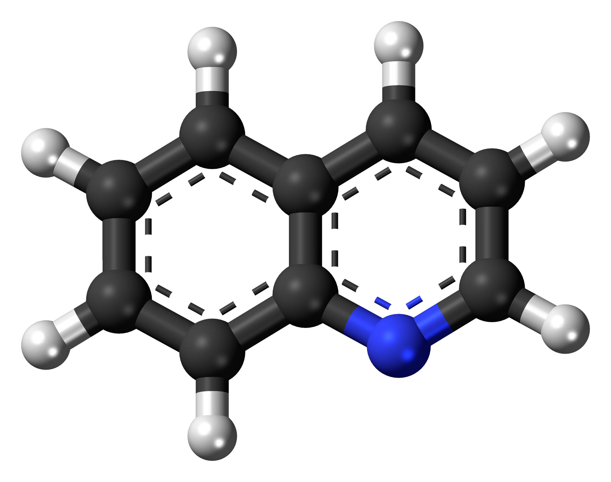 Ball-and-stick model of the quinoline molecule, a nitrogen heterocycle and simple aromatic ring. Colour code: Carbon, C: black Hydrogen, H: white Nitrogen, N: blue